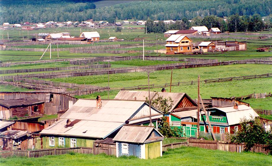 Vershina, Polish village in Ust-Orda Buryatia